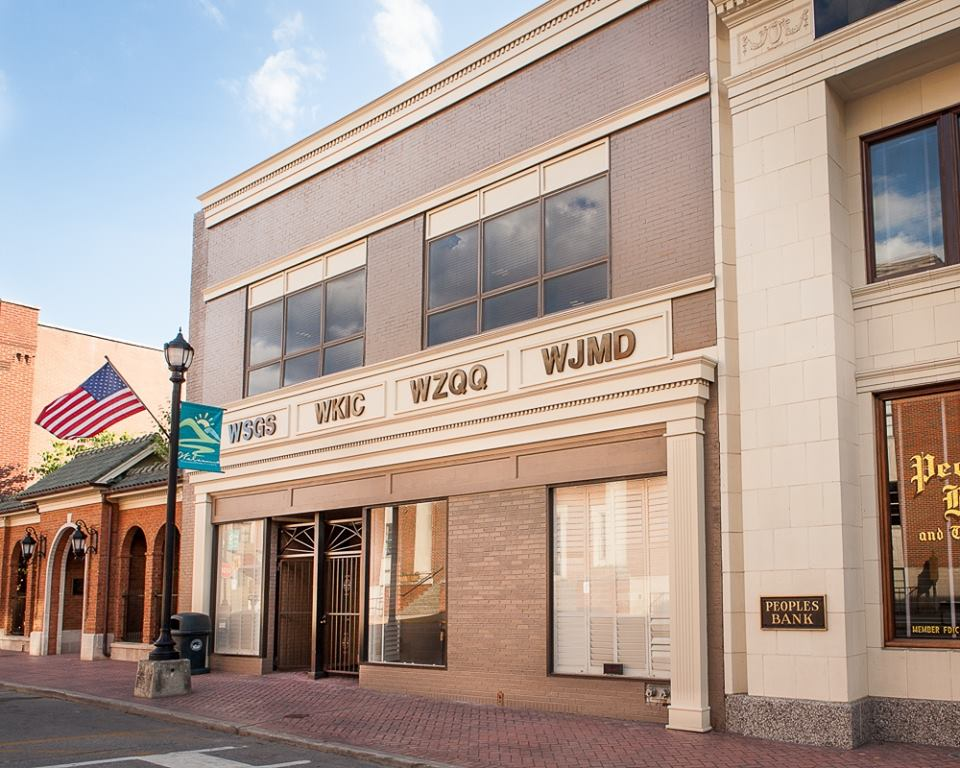 Side shot of the WSGS Radio Building